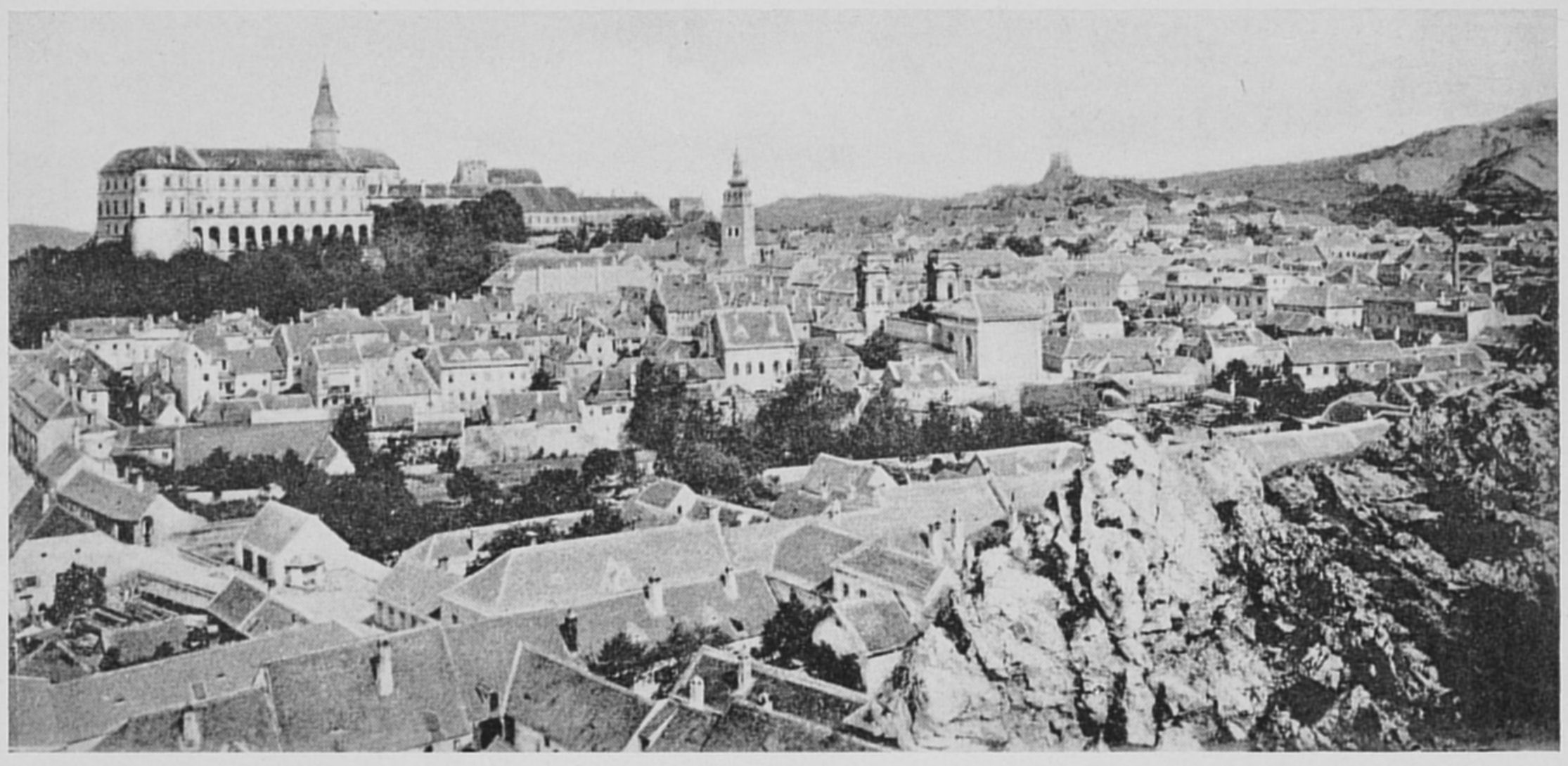 A general view of Nikolsburg, ca. 1905. Image from Balthasar Hübmaier—The Leader of the Anabaptists.